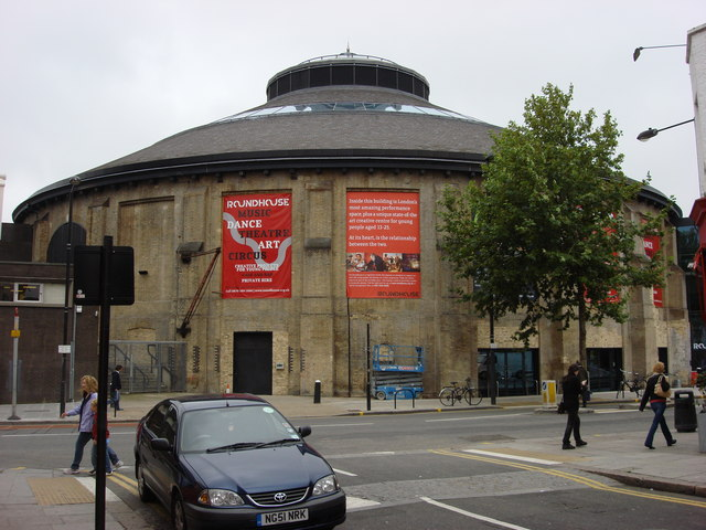 The Roundhouse, Camden Built in 1847 as a turntable engine shed for the London and Birmingham Railway. Within 20 years locomotives became too large for the facilities to handle, and the Roundhouse underwent a number of changes of use. For years it was a gin store for the firm of W & A Gilbey Ltd until it was converted to a theatre in the late 1960s. The Roundhouse has hosted notable performers The Clash, Rolling Stones, David Bowie, Jimi Hendrix, and Led Zeppelin, among others. In 2006 it served as the venue for the BBC's Electric Proms, and has also hosted award ceremonies such as the BT Digital Music Awards and the Vodafone Live Music Awards.